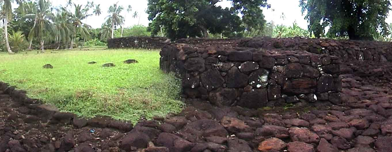 Ruins of Talietumu fort on ʻUvea.